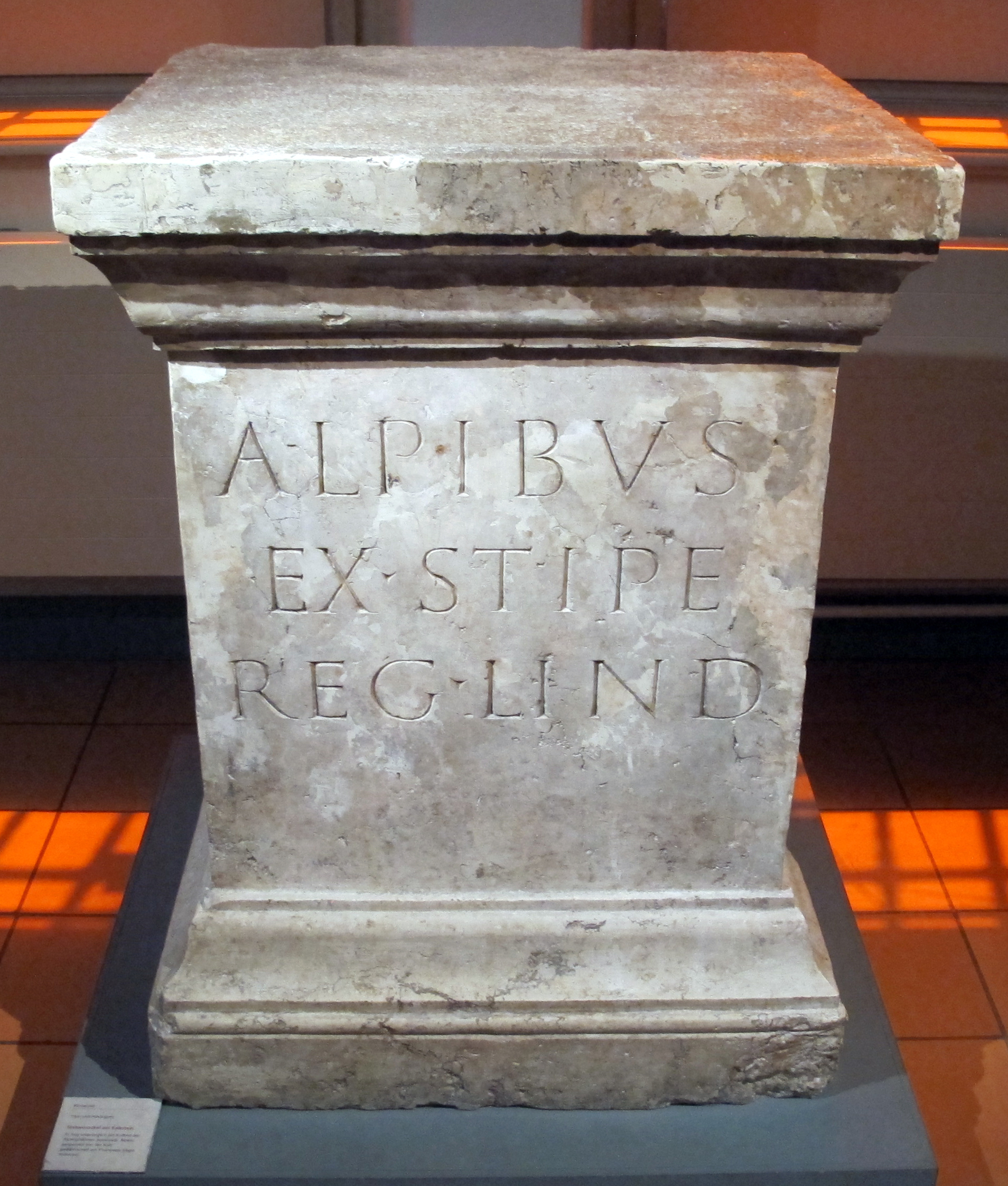 Ancient Roman art in the Historisches Museum Bern